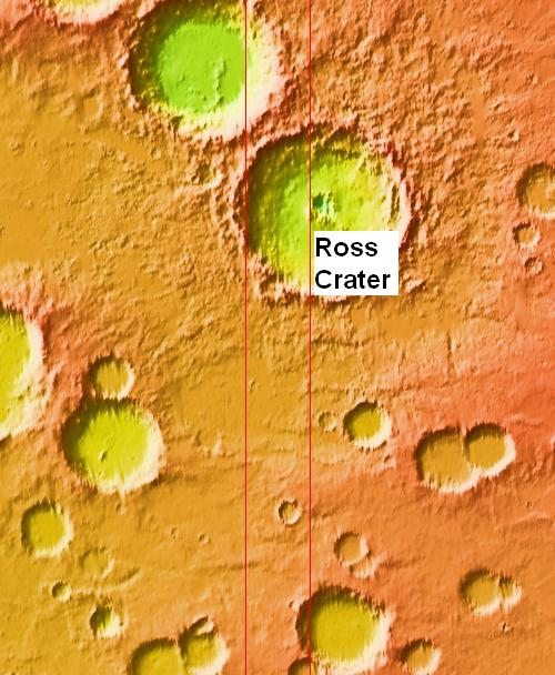 MOLA view of Ross Crater. Location is near to 57.8 S and 251.3 E.